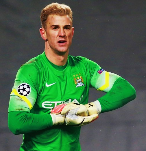 Joe Hart